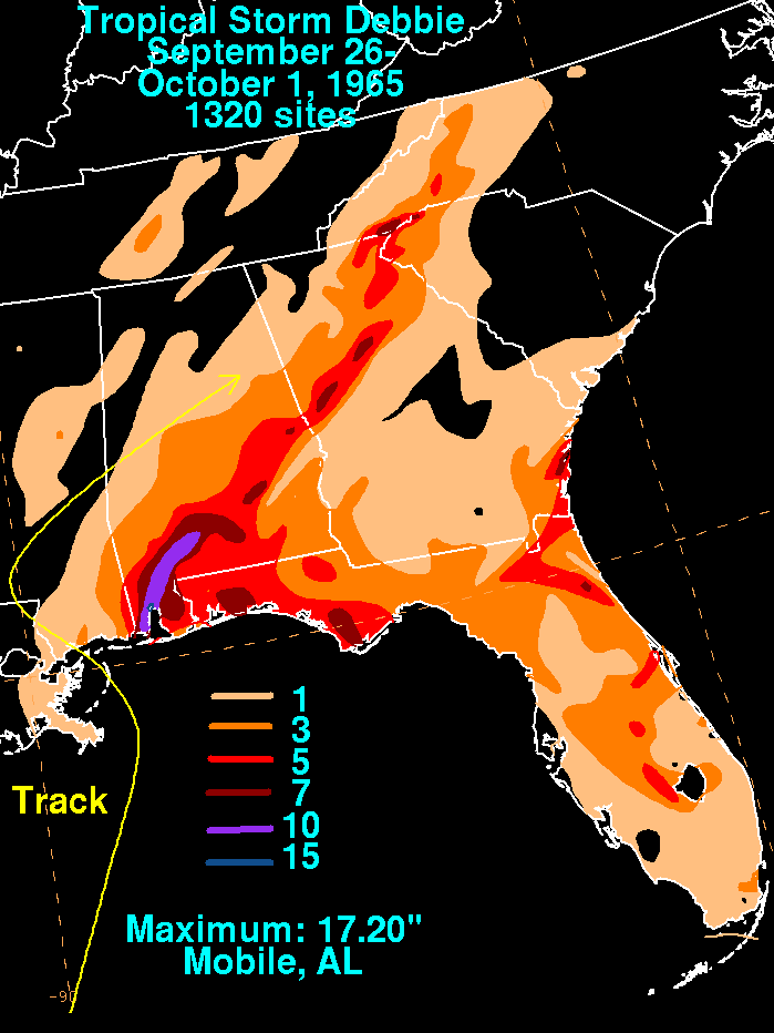 Storm total rainfall map of Tropical Storm Debbie during September and October 1965.